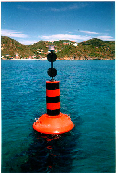 Isolated danger marks. Navigation buoys